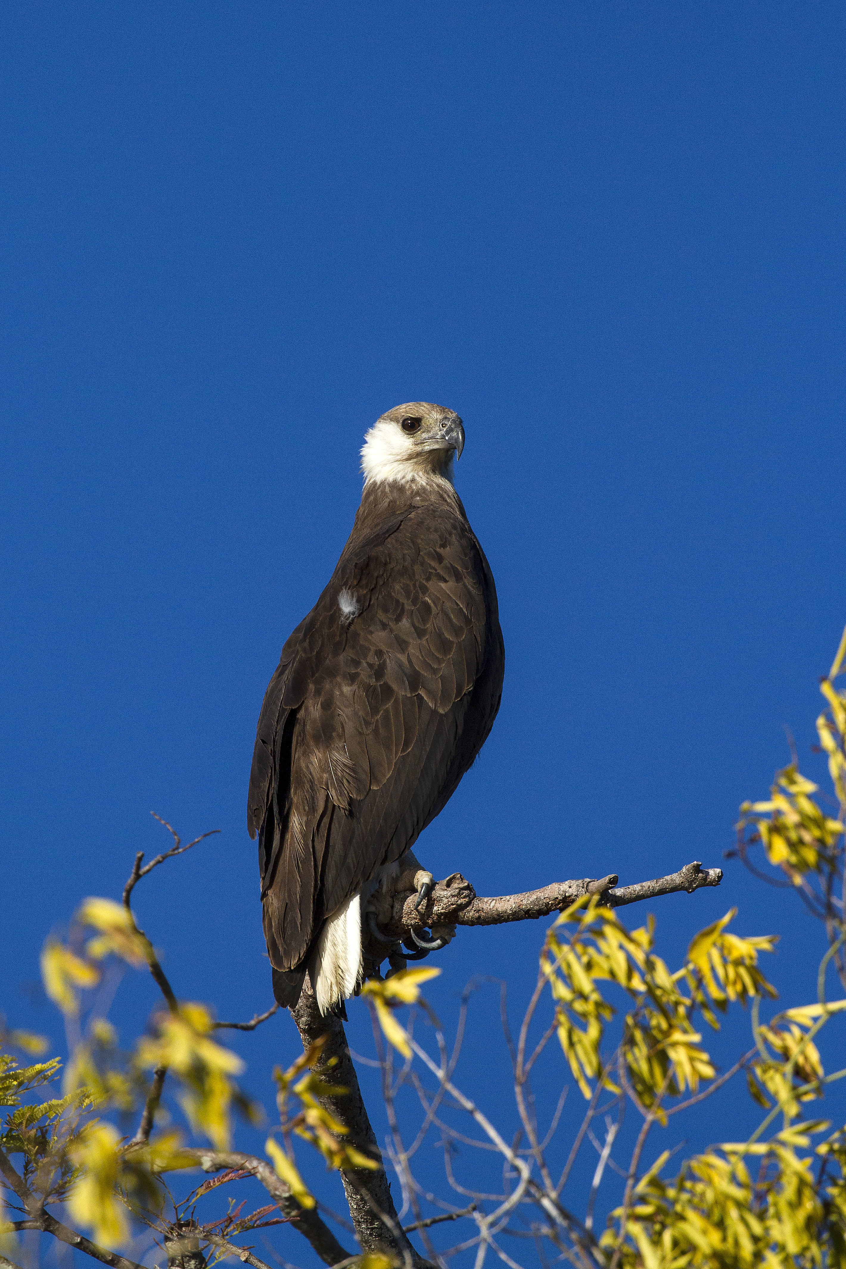 One of the best places in the world to see the Malagasy Fish Eagle (Halliaeetus vociferoides) is Anjajavy.